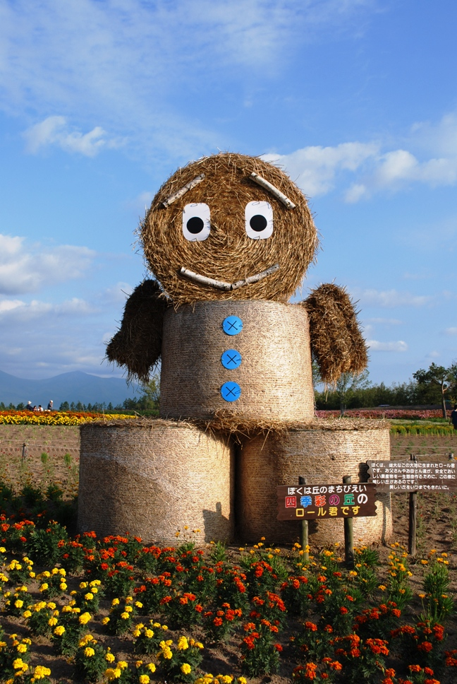 Roll kun at Hill of shikisai